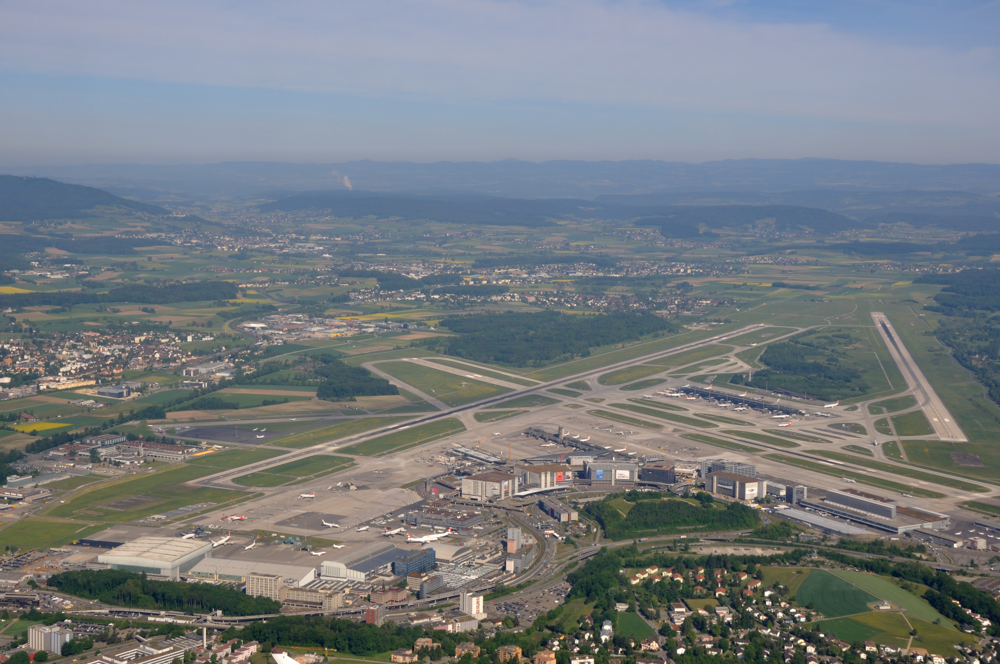 Switzerland, Canton of Zürich, Zurich International Airport while climbing out from runway 16